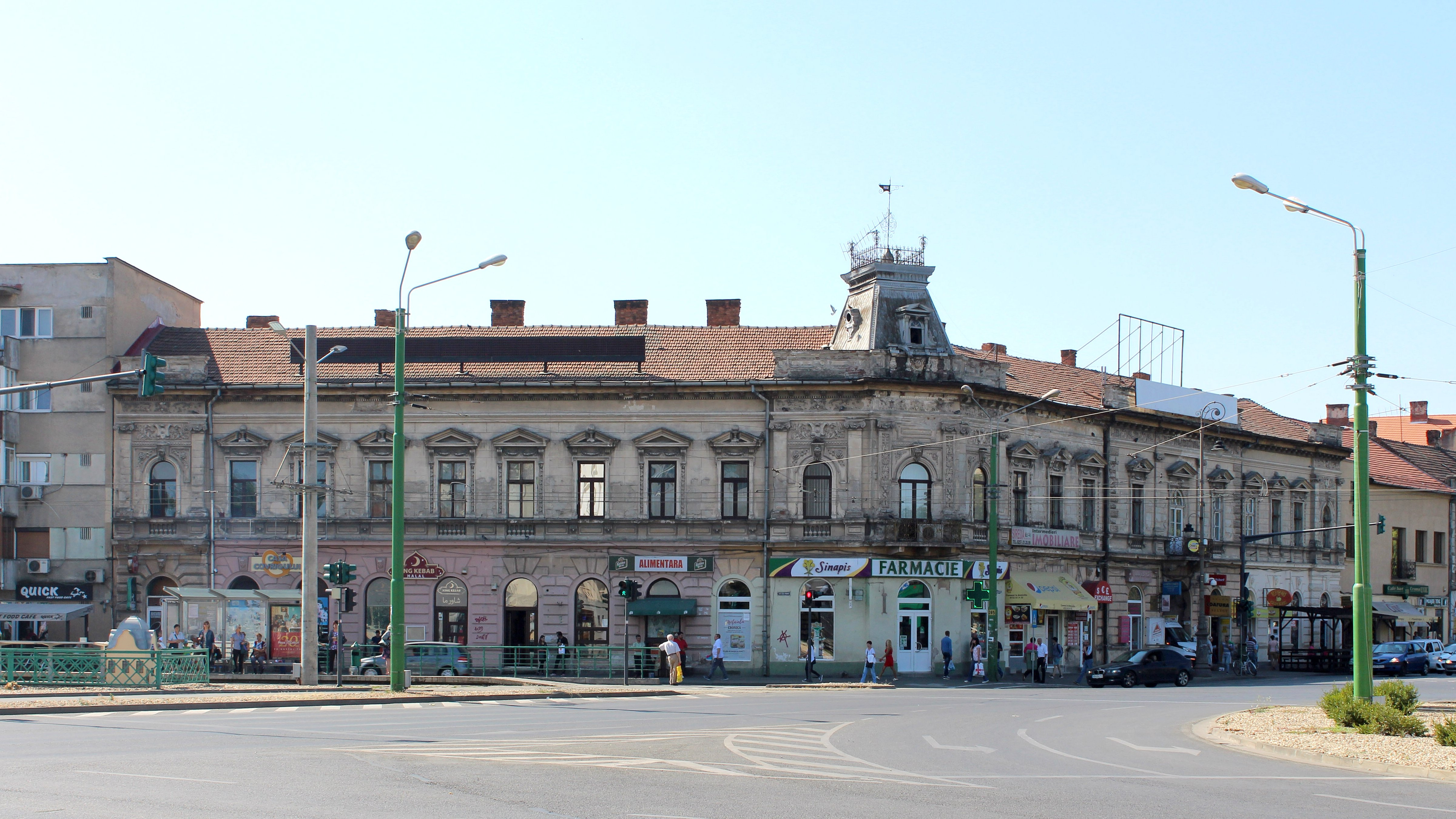 Dengl House with Kárpáti drugstore, Revoluției av., 23, Arad, built in the 19th century